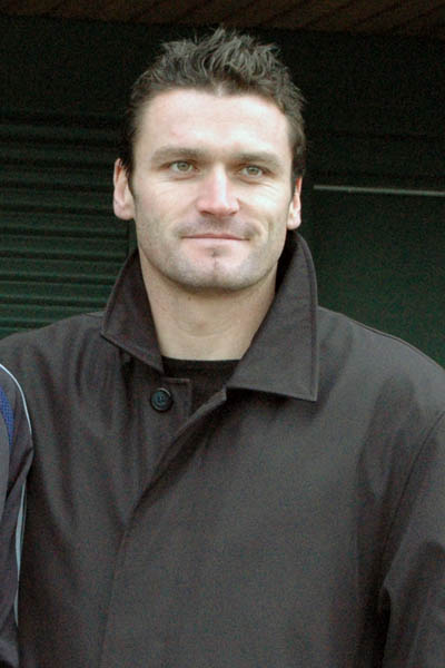 Photo of soccer player, Tony Caig. Wilson Wong photo.